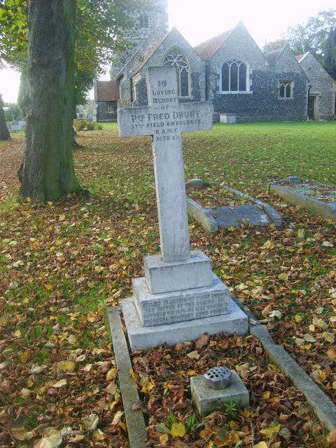 Gravestone for Pte Fred Drury Private Fred Drury of the R.A.M.C. died at Flers during the Battle of the Somme on 4th October, 1916 and lies buried in the Becordel military cemetery in France.grav